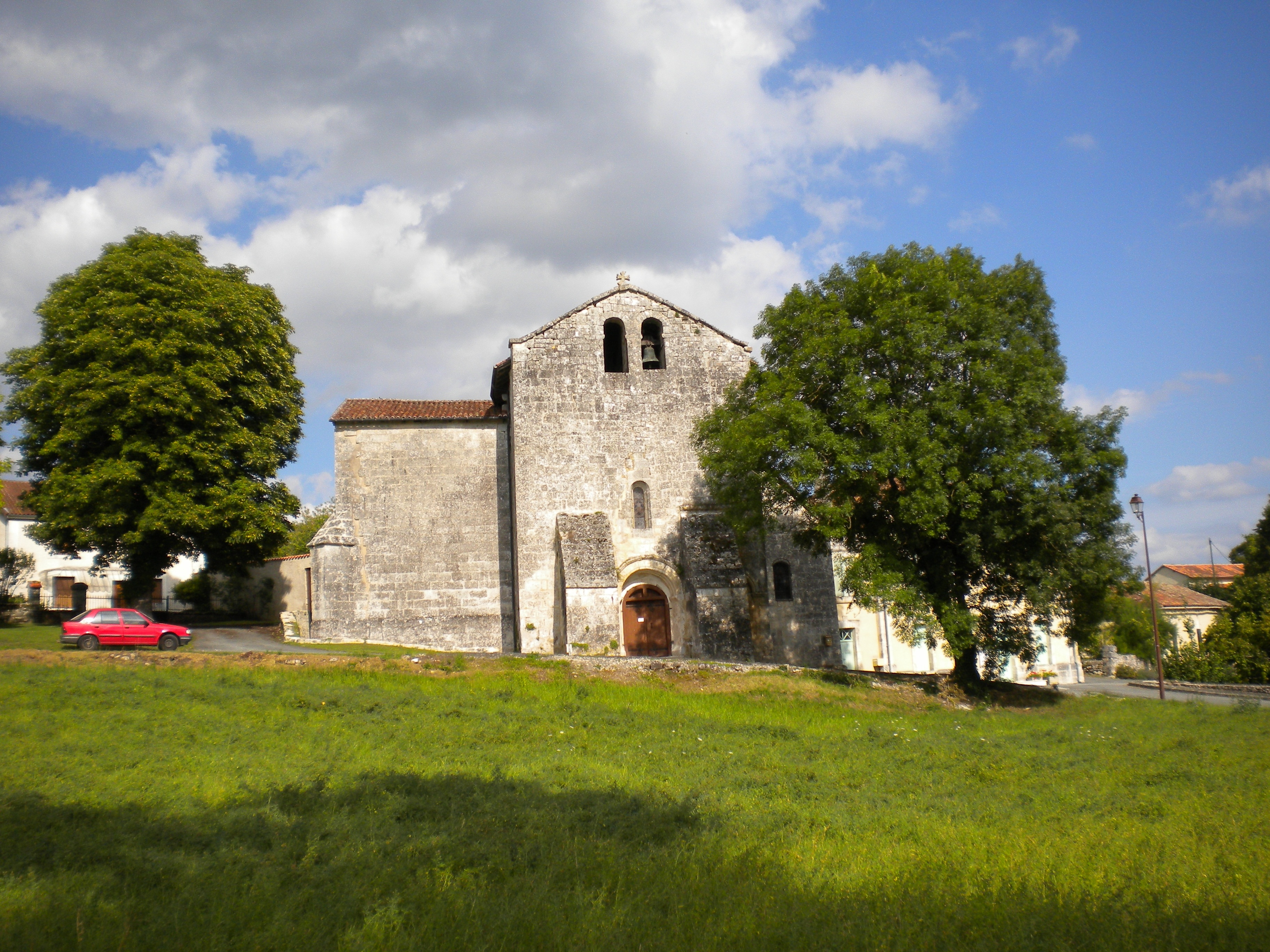 The village church of Saint-Just, Dordogne, France. The photo is taken from the west.